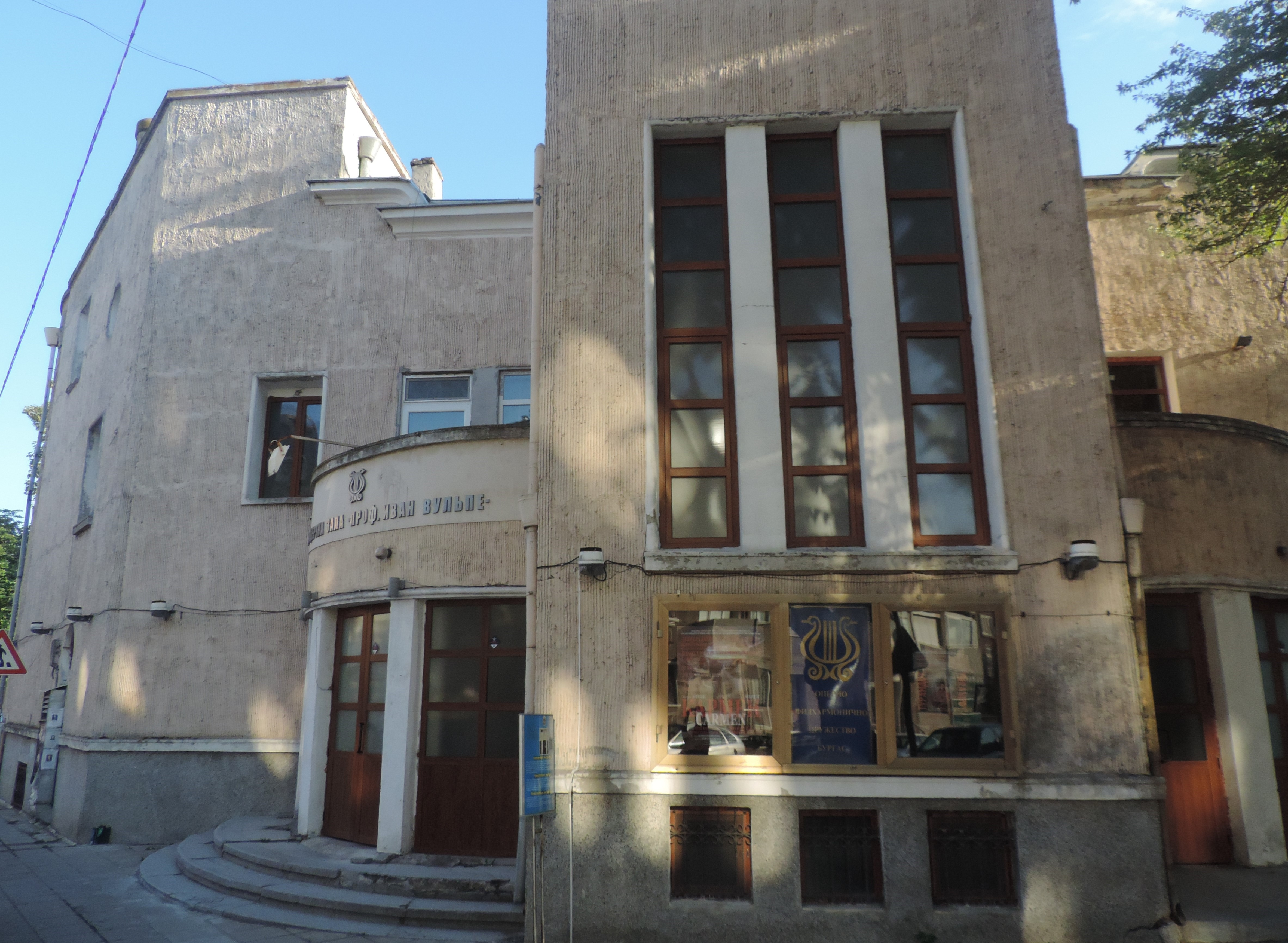 "Ivan Vulpe" Concert Hall in Burgas, Bulgaria